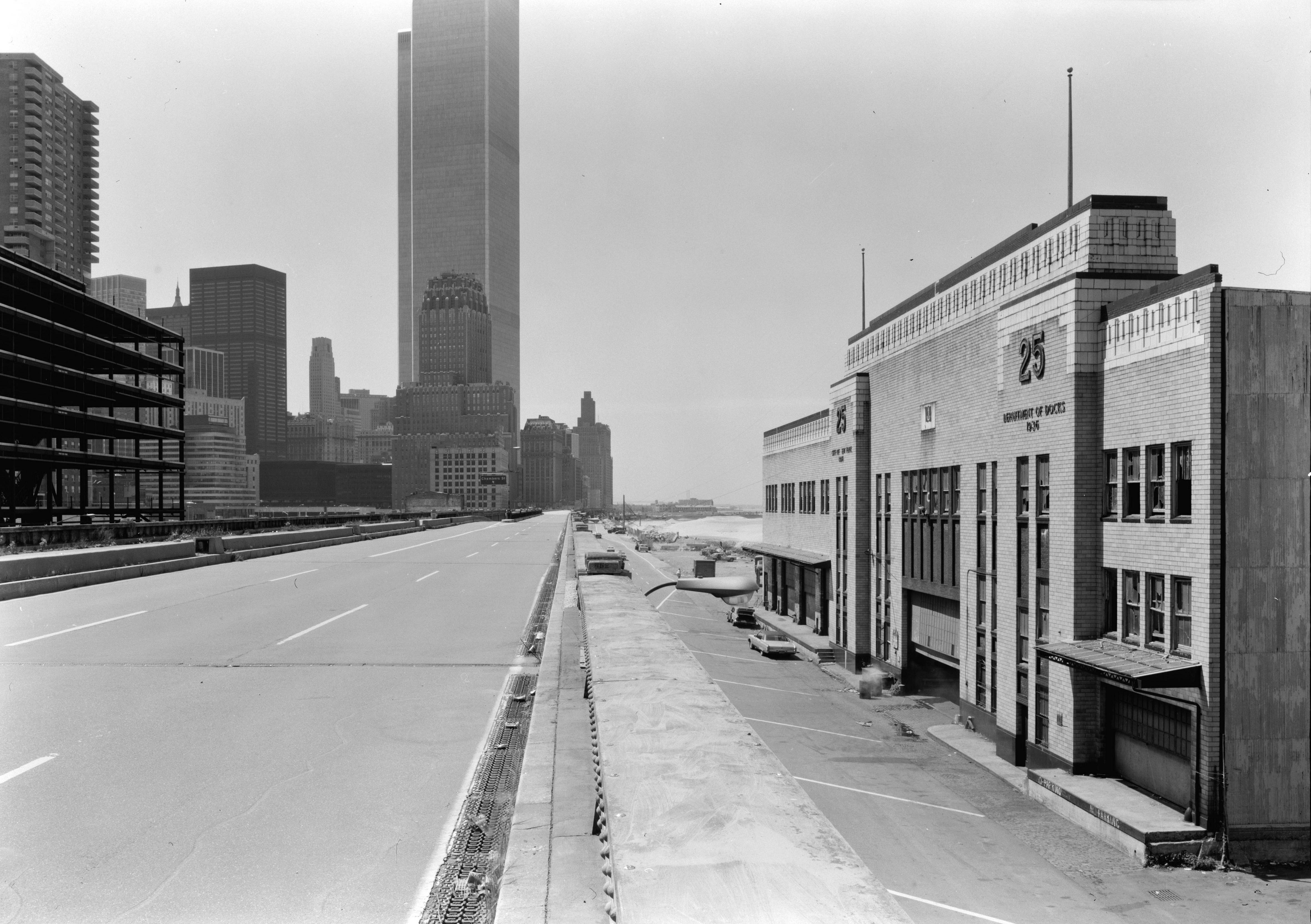 Looking south on Westside Highway, New York. Detailing echoes rail detail of highway at pier 25.